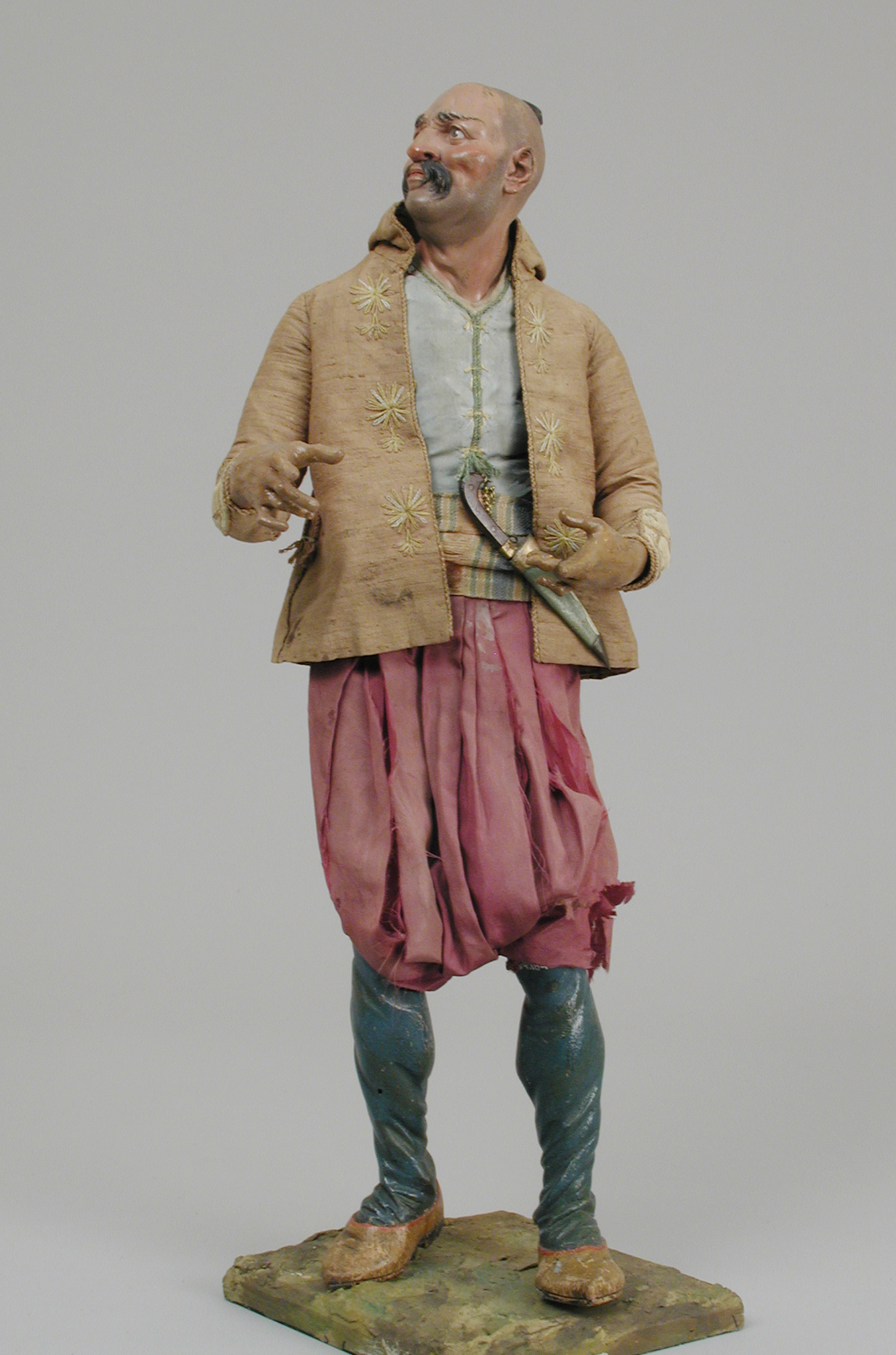 Italian, Naples; Crèche figure; Crèche